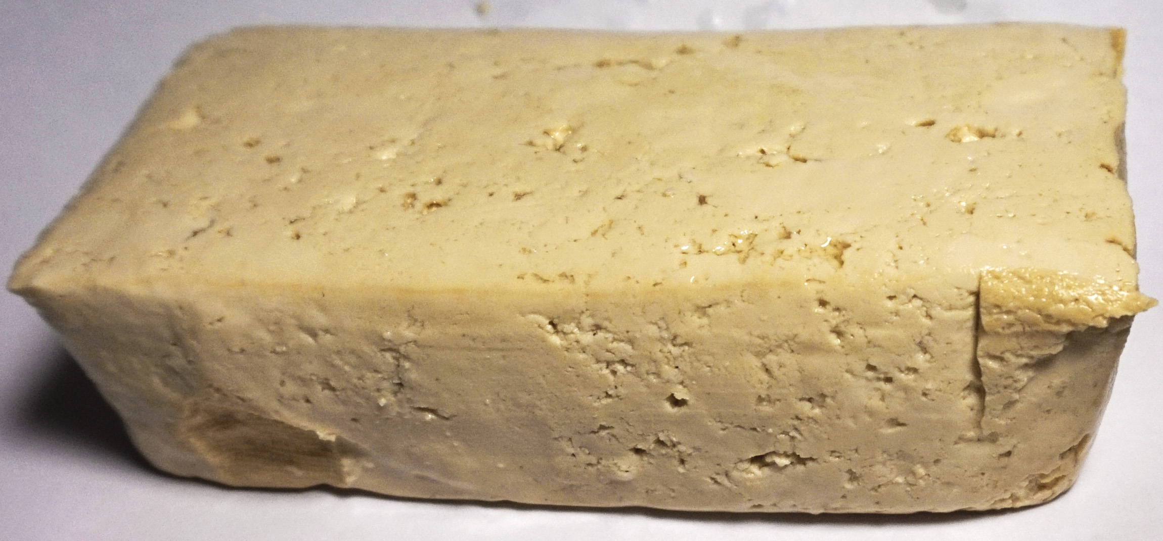 Unfalvored tofu producted by SoFine.